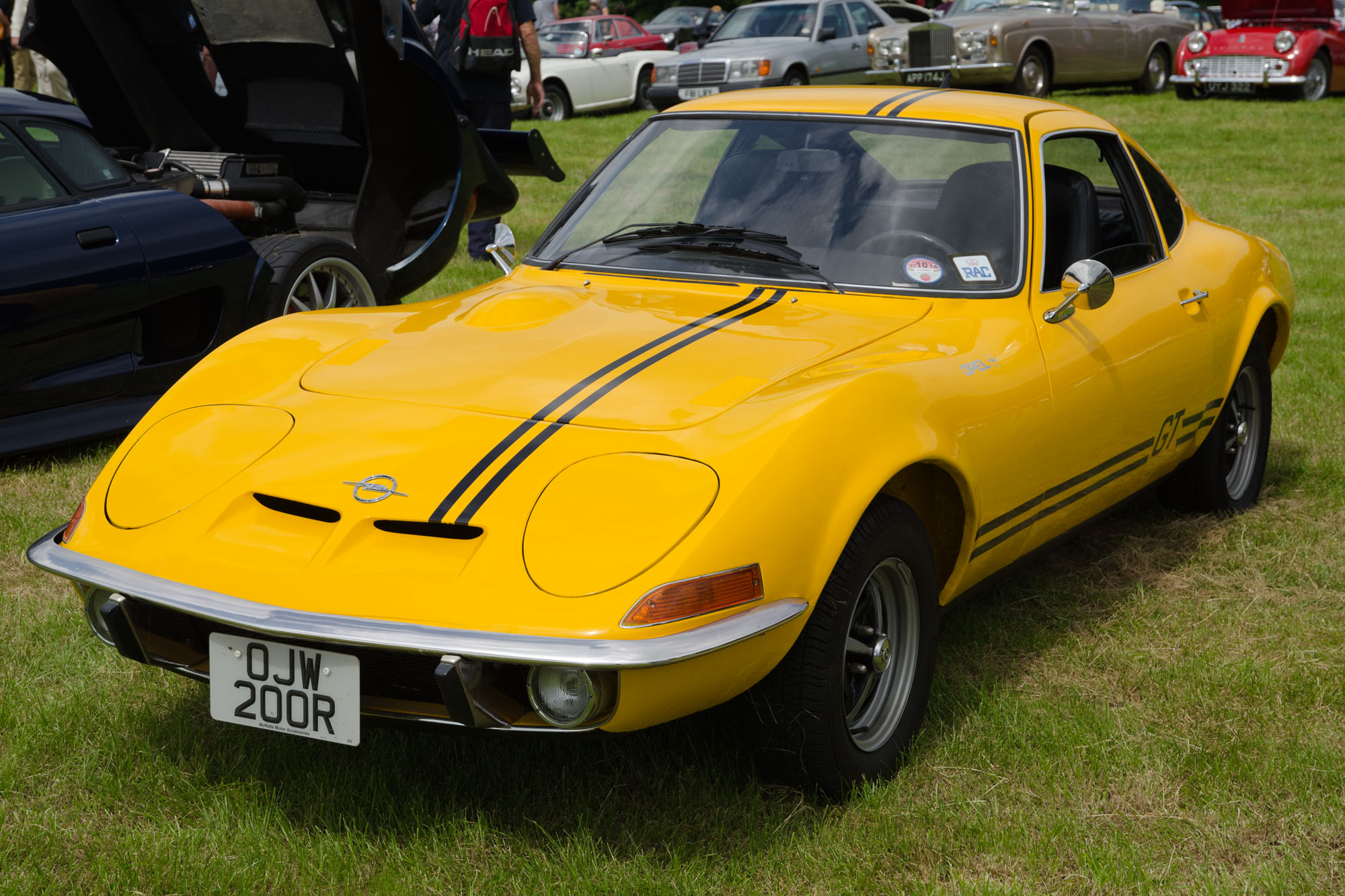 Hoghton Tower Classic Car Show 22/06/2014